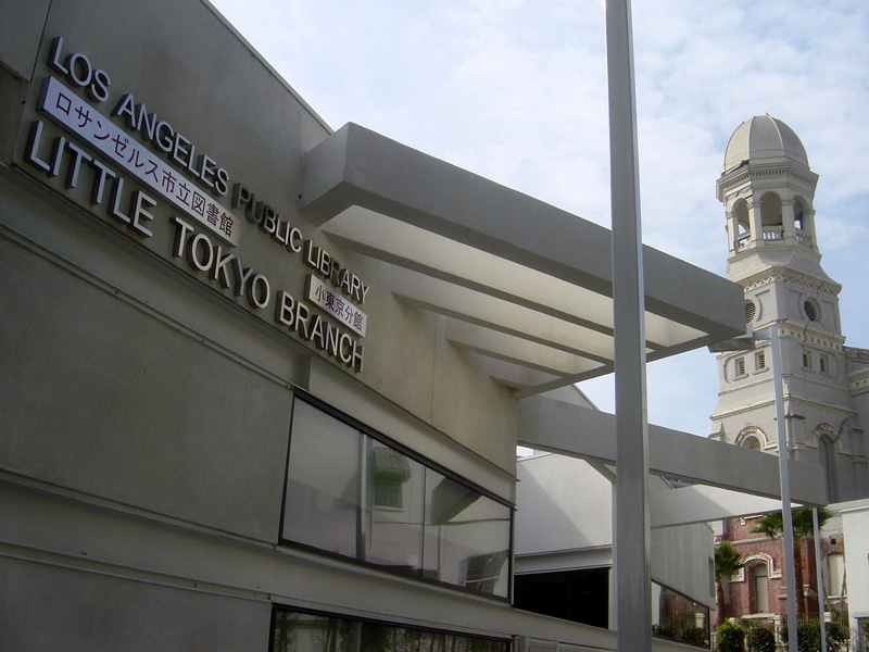 The Little Tokyo Los Angeles Public Library Branch, in the Little Tokyo neighborhood of Downtown Los Angeles. The former Cathedral of St. Vibiana (bell tower in photo) was converted into a performing arts space, and part of the grounds are now home to this LAPL branch.